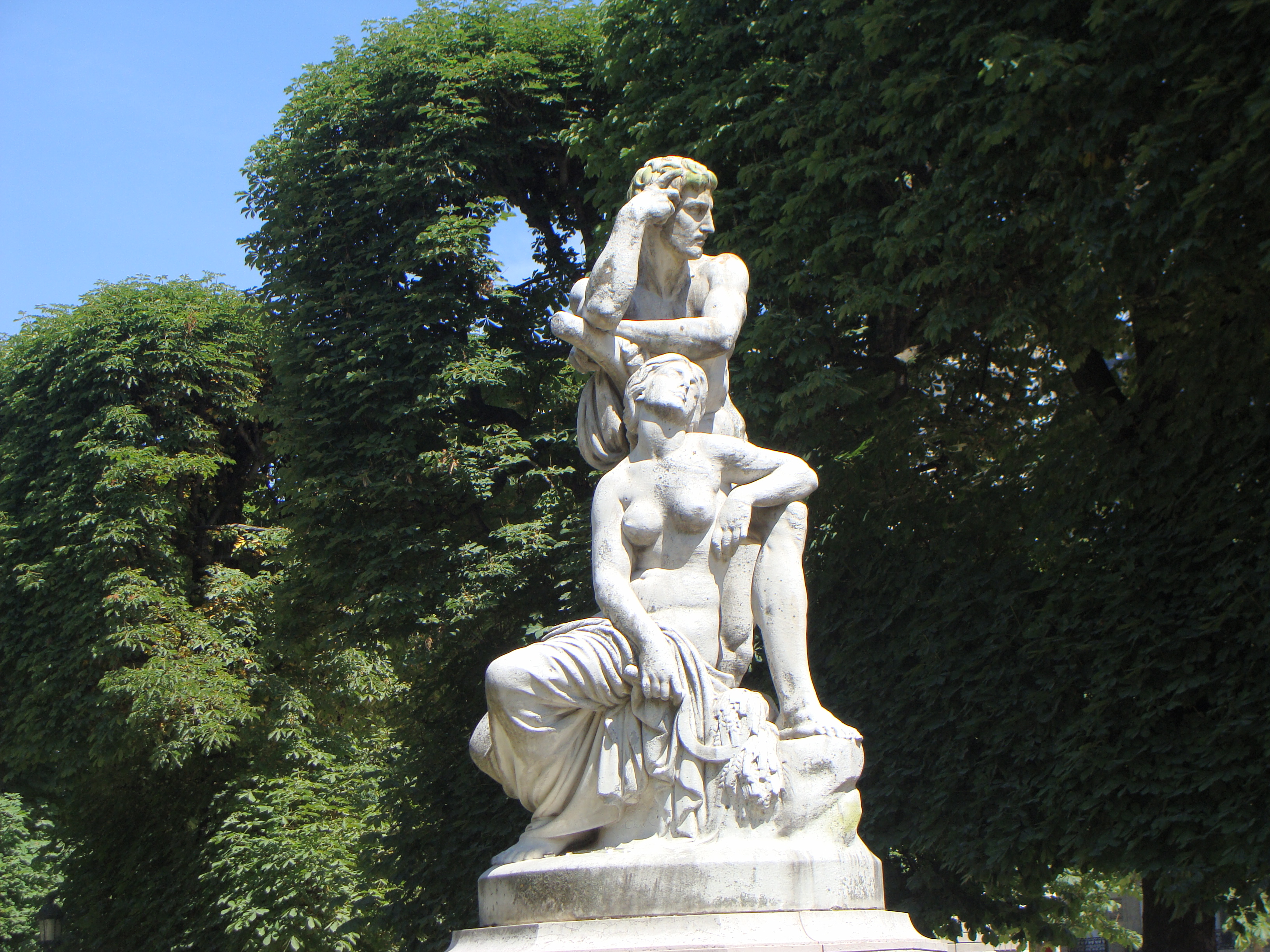 Crepuscule by Crauk in Paris